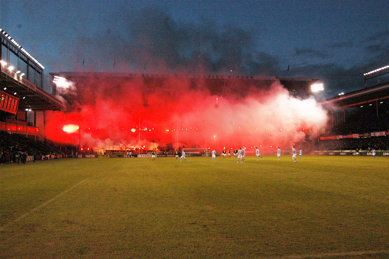 AIK-Malmö FF, 2012